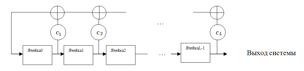 Register